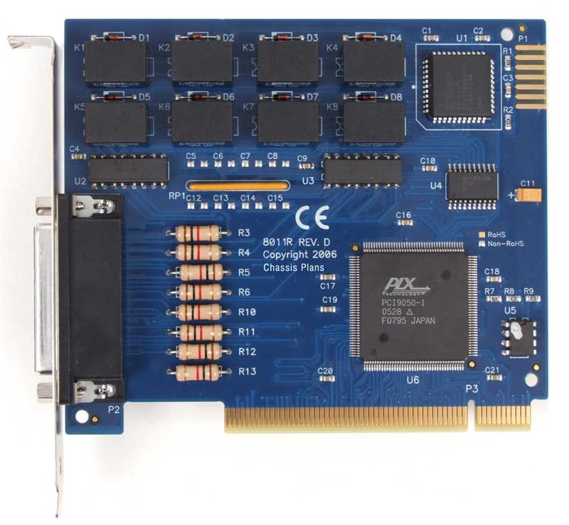 Chassis Plans 8011 Digital I/O Card Author: David Lippincott for Chassis Plans